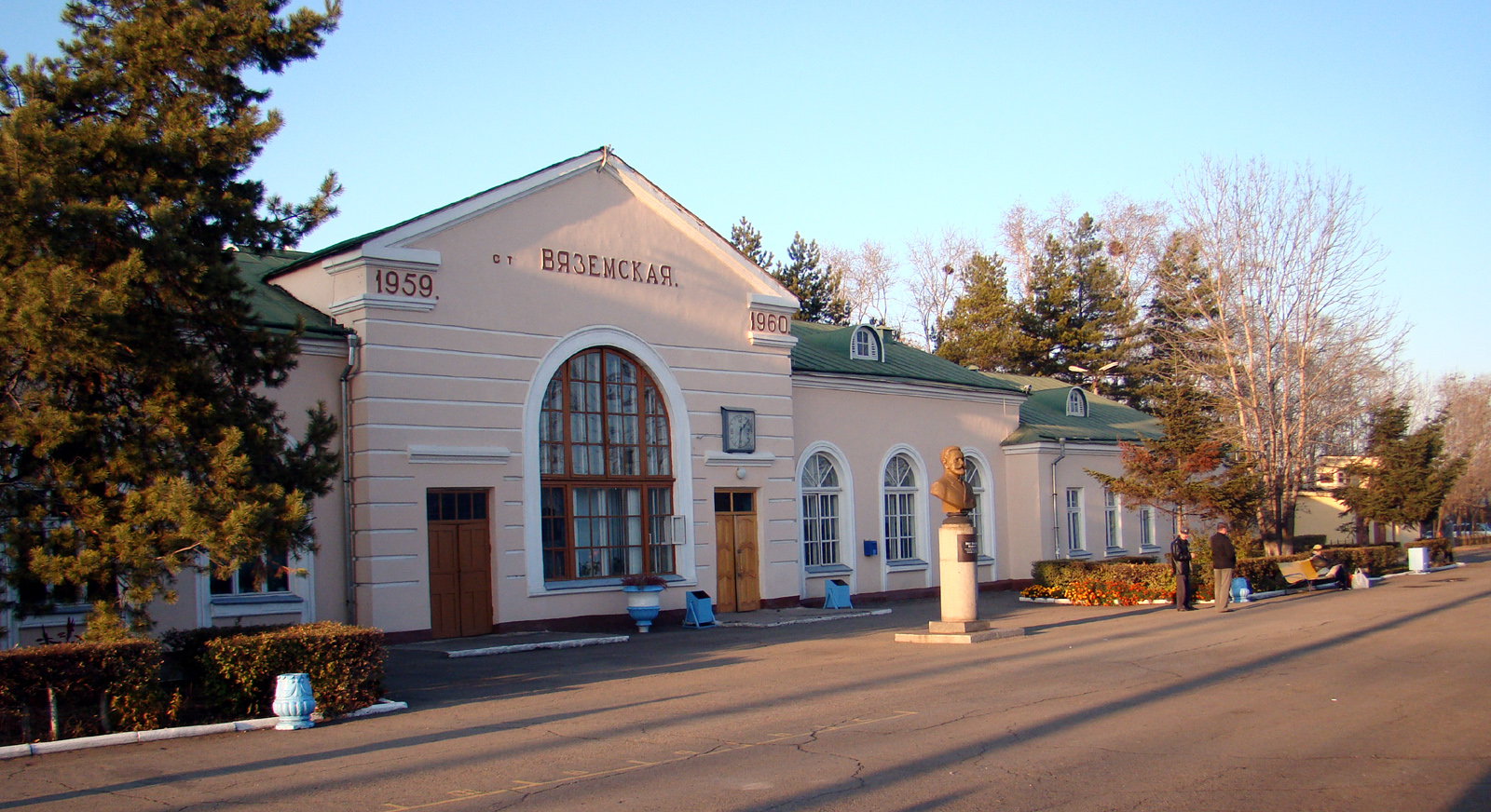 Railway station Vyazemskaya (Khabarovsk Region). Monument to the railway engineer Orest Vyazemsky.